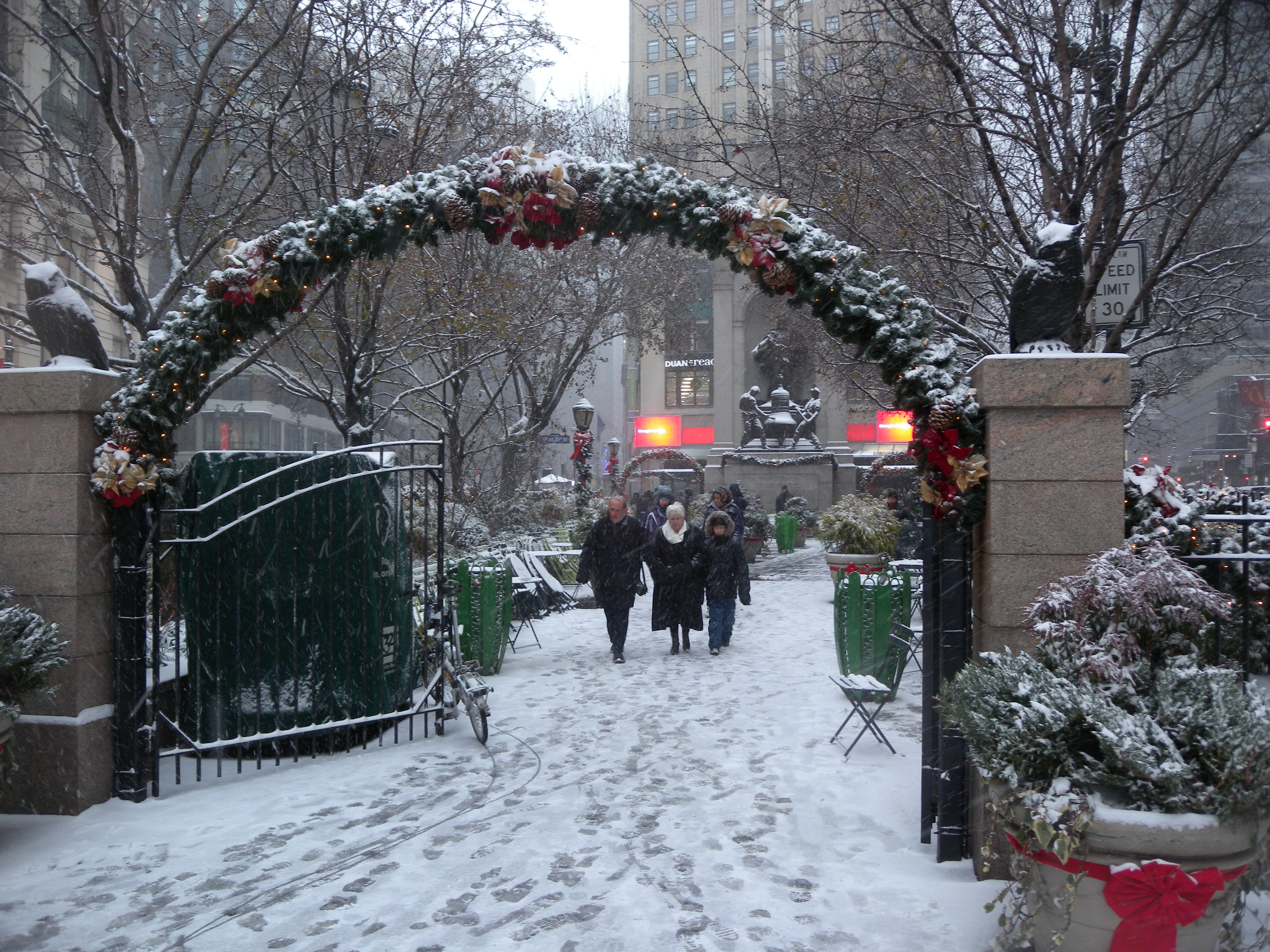 Looking north into Herald Square after a couple hours snowing. Bicycle is photographer's.